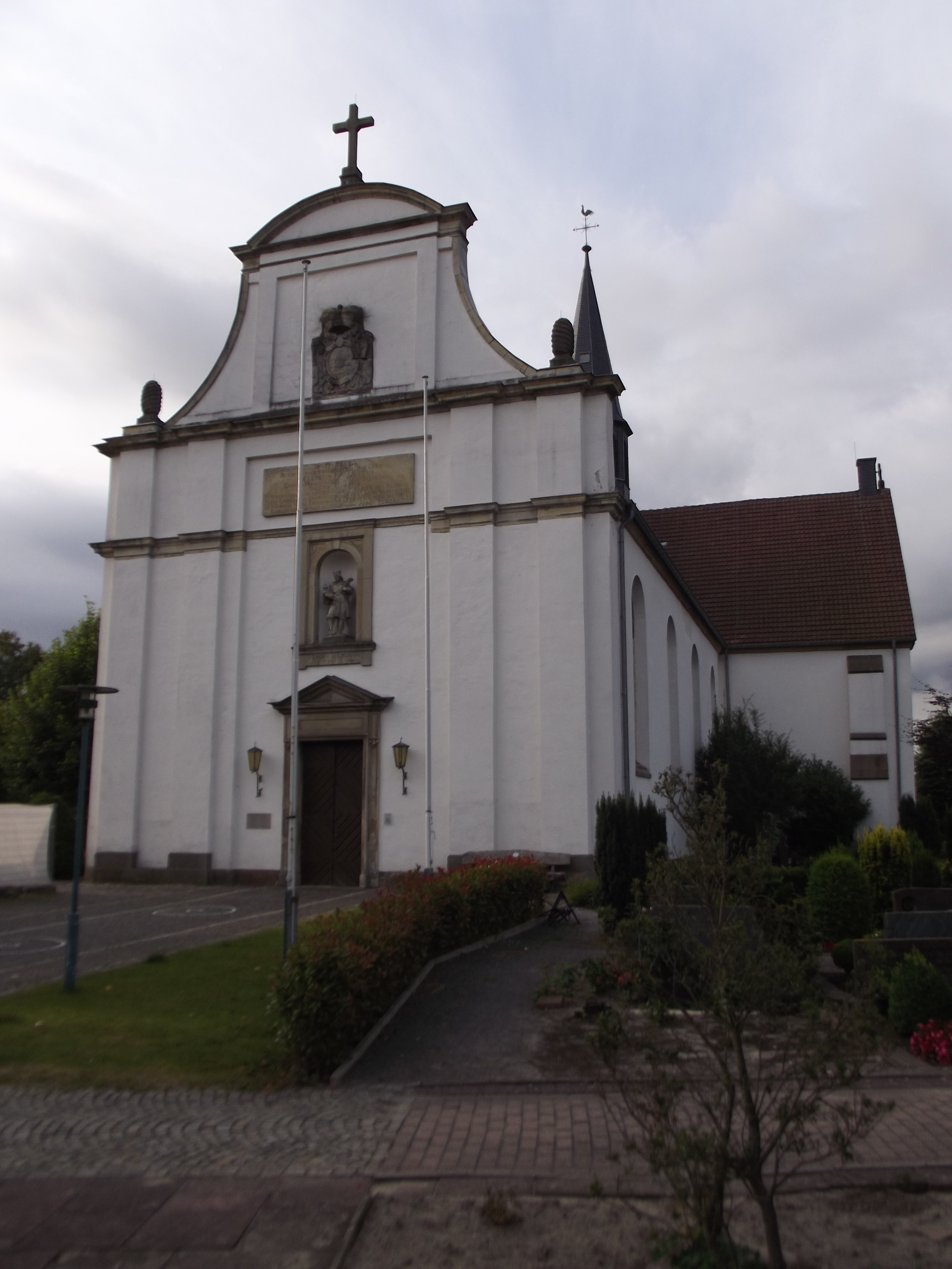 The Catholic Church of Burgsteinfurt, a formerly independent part of Steinfurt, known as Protestantic "isle" in Westphalia